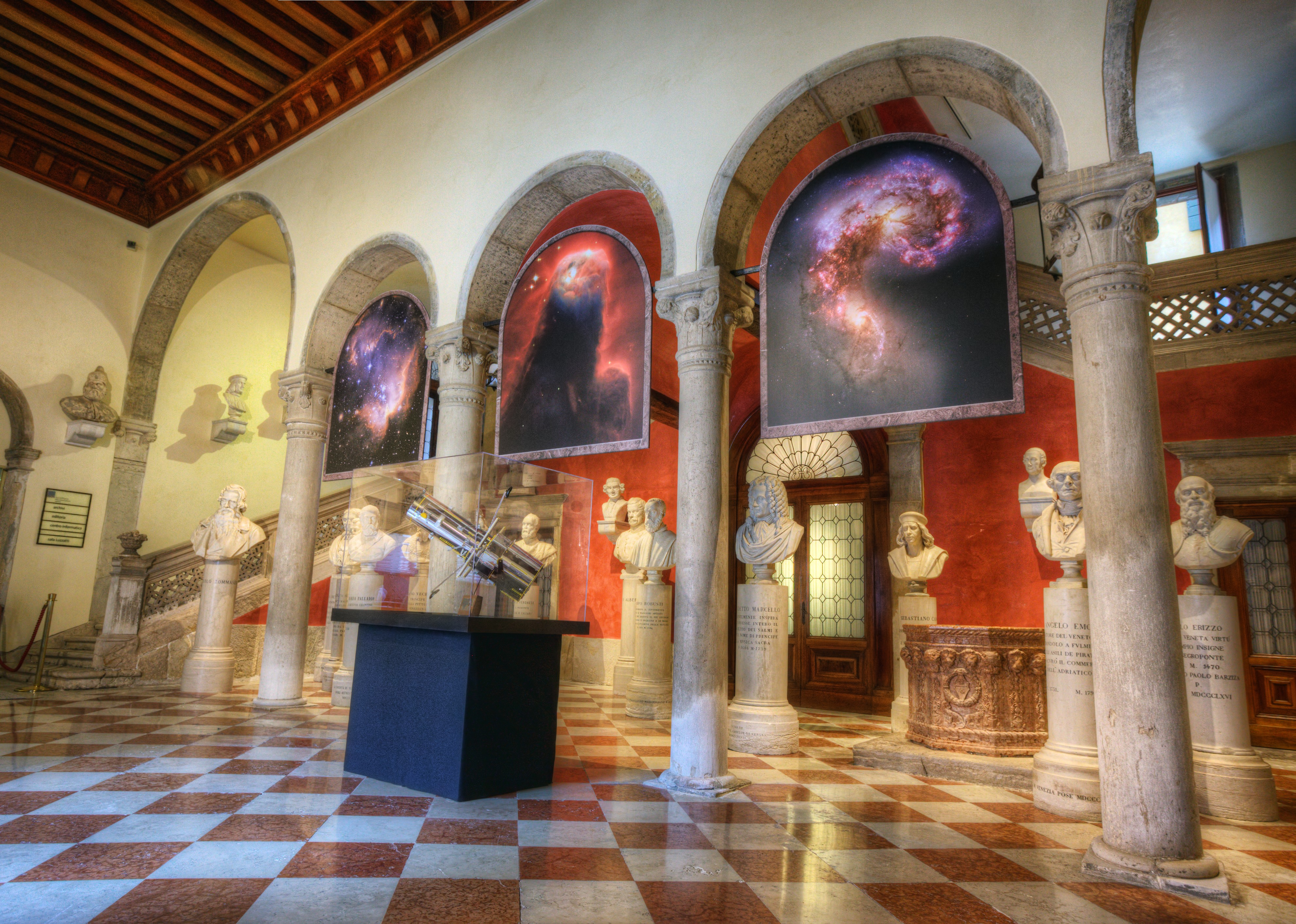 The "Twenty Years at the Frontier of Science" exhibition at the Istituto Veneto di Scienze, Lettere ed Arti in their beautiful and historic Palazzo Loredan. Exhibits include many breathtaking photos taken over the years by the famous orbiting observatory, as well as artefacts from the telescope and tools used by astronomers in their missions to repair and upgrade it.